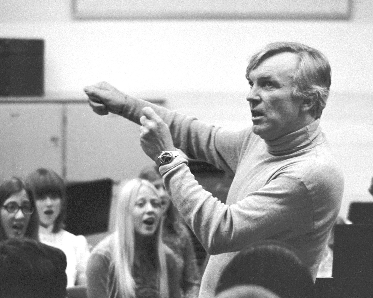 Photo of Frank Pooler conducting a choir practice